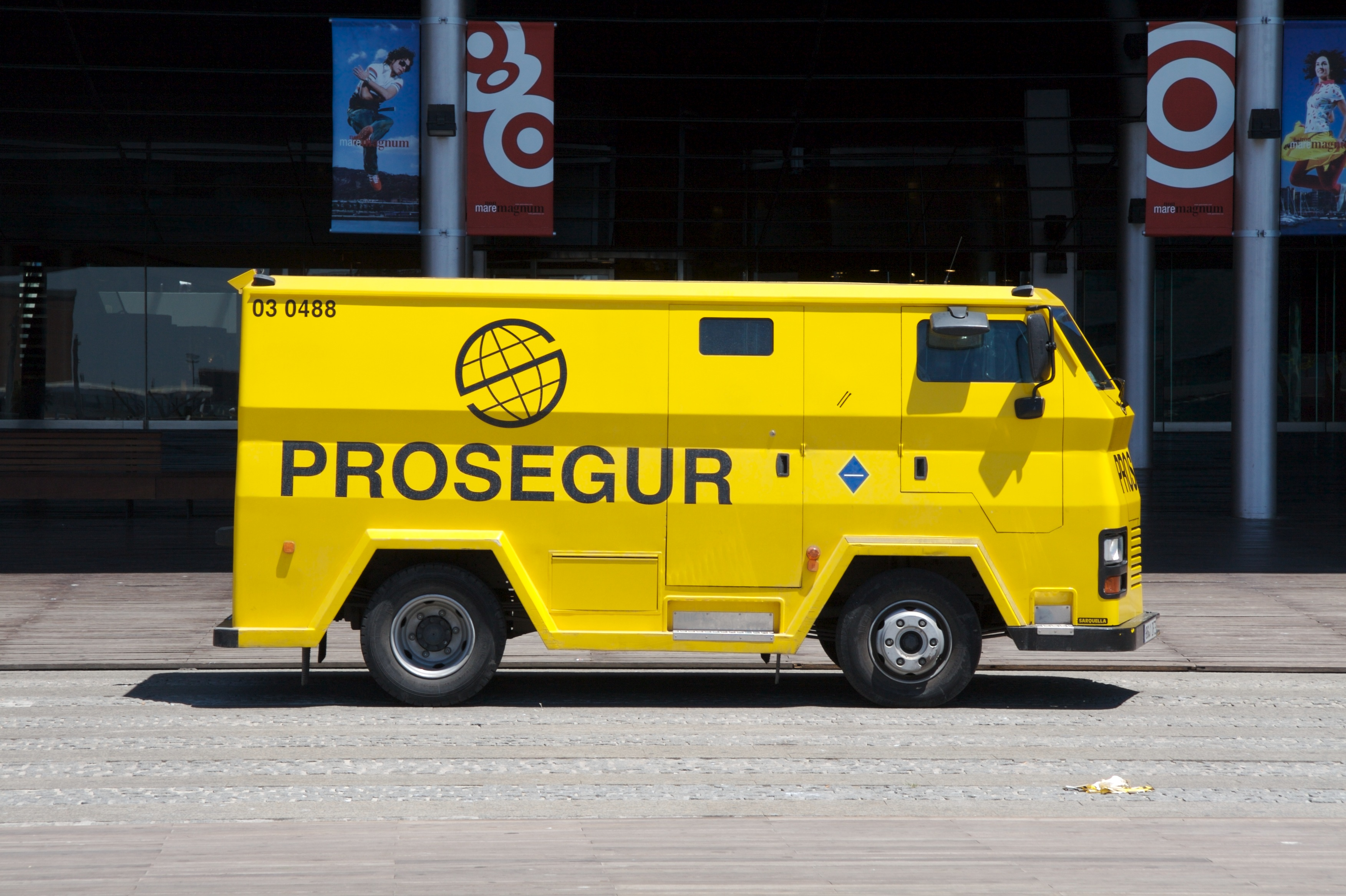 Armored truck in Barcelona, Spain